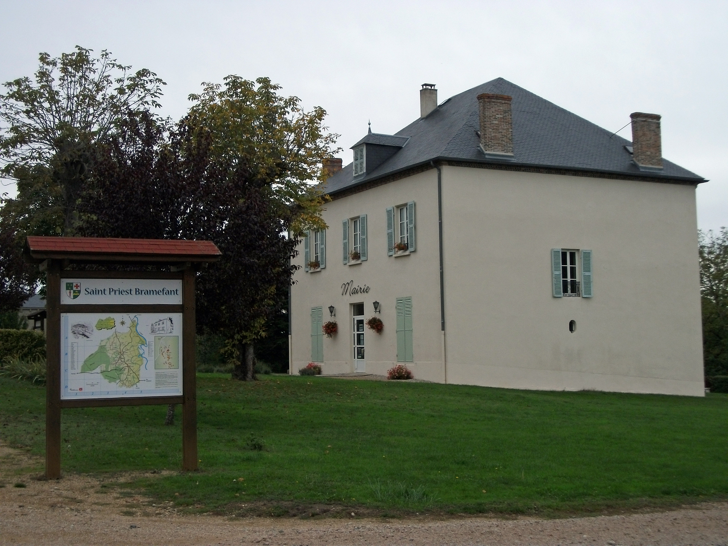 Tourist information and town hall of Saint-Priest-Bramefant [9180]